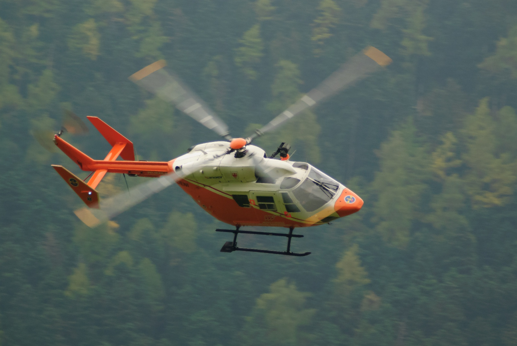 Helicopter Pelikan 1 of the Air Ambulances service of the autonomous Province of Bozen/Südtirol